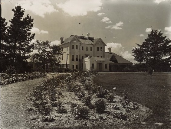 Government House and front gardens, view from left side, Canberra, 1927